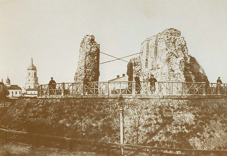 Kiev, view of Golden Gate's remains